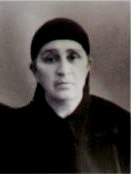 Nato Kobaidze the mother of Catholicos-Patriarch of All Georgia Ilia